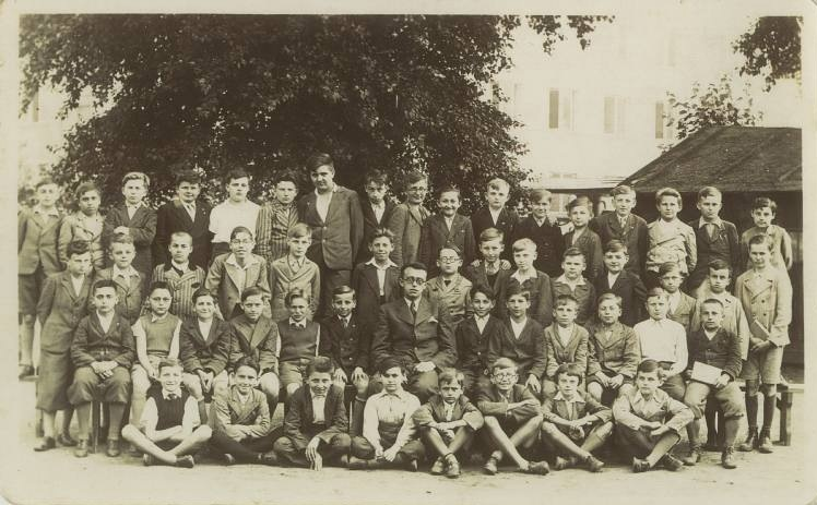 Rudolf Vrba (1924–2006, then known as Walter Rosenberg) at school, front row, fourth left. The photograph was taken in 1935–1936, Bratislava, Slovakia.